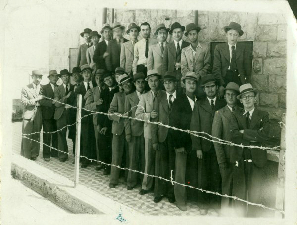 Students of the “Kenesset Israel” yeshiva which moved from Hebron to Jerusalem. [Jerusalem 1930’s].